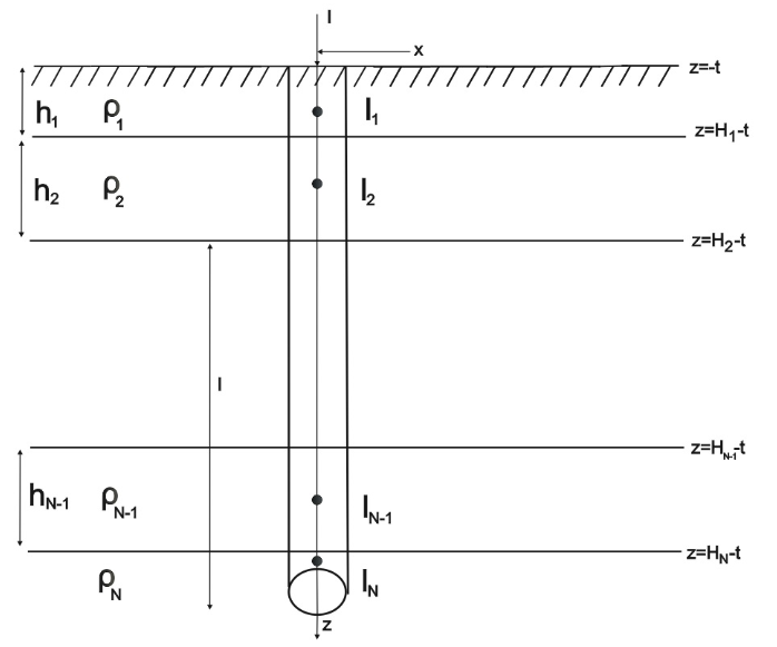 Multiple soil layers TU-GO